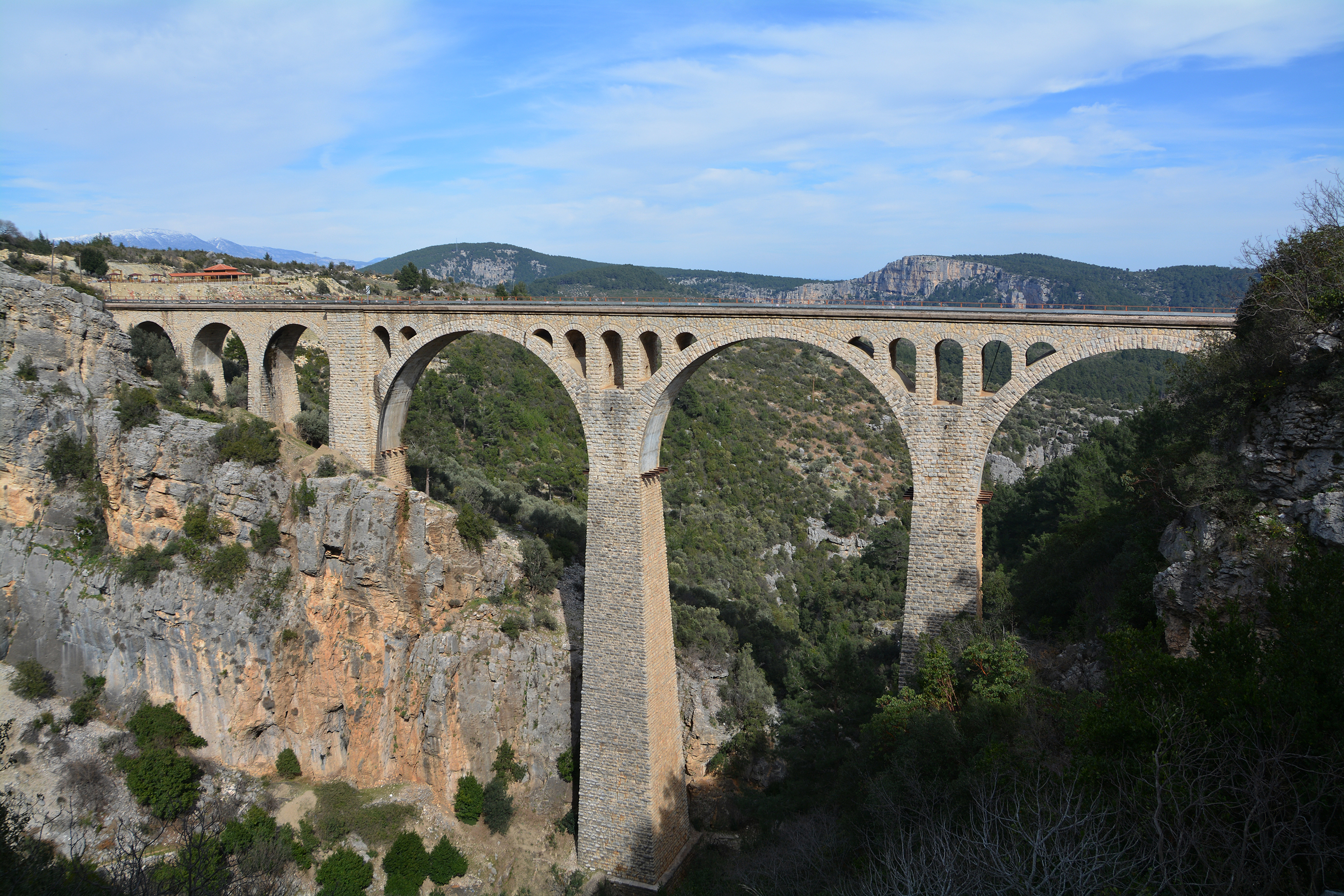 Varda Viaduct, (aka "German Viaduct", "Hacikiri Viaduct" or "Grand Viaduct") is a railway viaduct situated at Hacıkırı (Kıralan) village in Karaisalı district of Adana Province, Turkey.